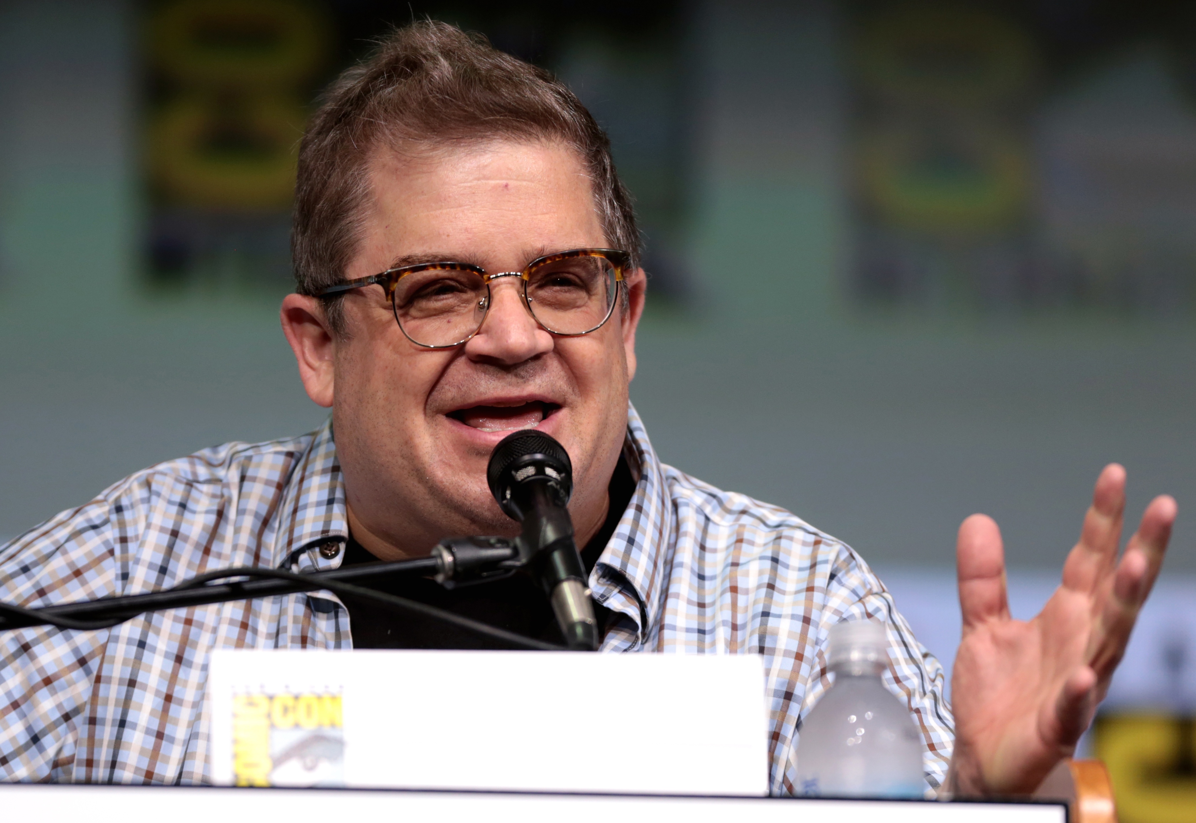 Patton Oswalt speaking at the 2017 San Diego Comic-Con International in San Diego, California.